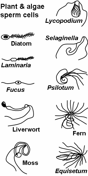 Motile plant and algae sperm cells. crop References Raven et al., Biology of Plants, 7th Edition, ISBN 0-7167-1007-2 Diatom sperm: page 314 Laminaria (kelp) sperm: page 320 Fucus sperm: page 321 Liverwort (Marchantia) sperm: page 355 Moss (Polytrichum) sperm: page 363 Lycopodium sperm: page 383 Selaginella sperm: page 387 Fern (Polypodium) sperm: page 397 Psilotum sperm: page 401 Equisetum sperm: page 405 (Created using Powerpoint)